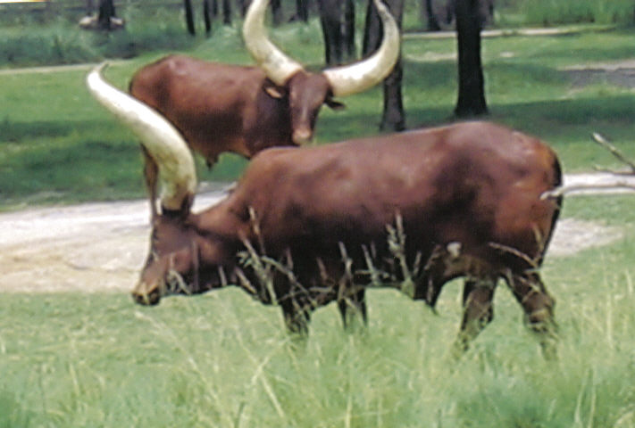 Ankole-Watusi cattle at Disney's Animal Kingdom Lodge.